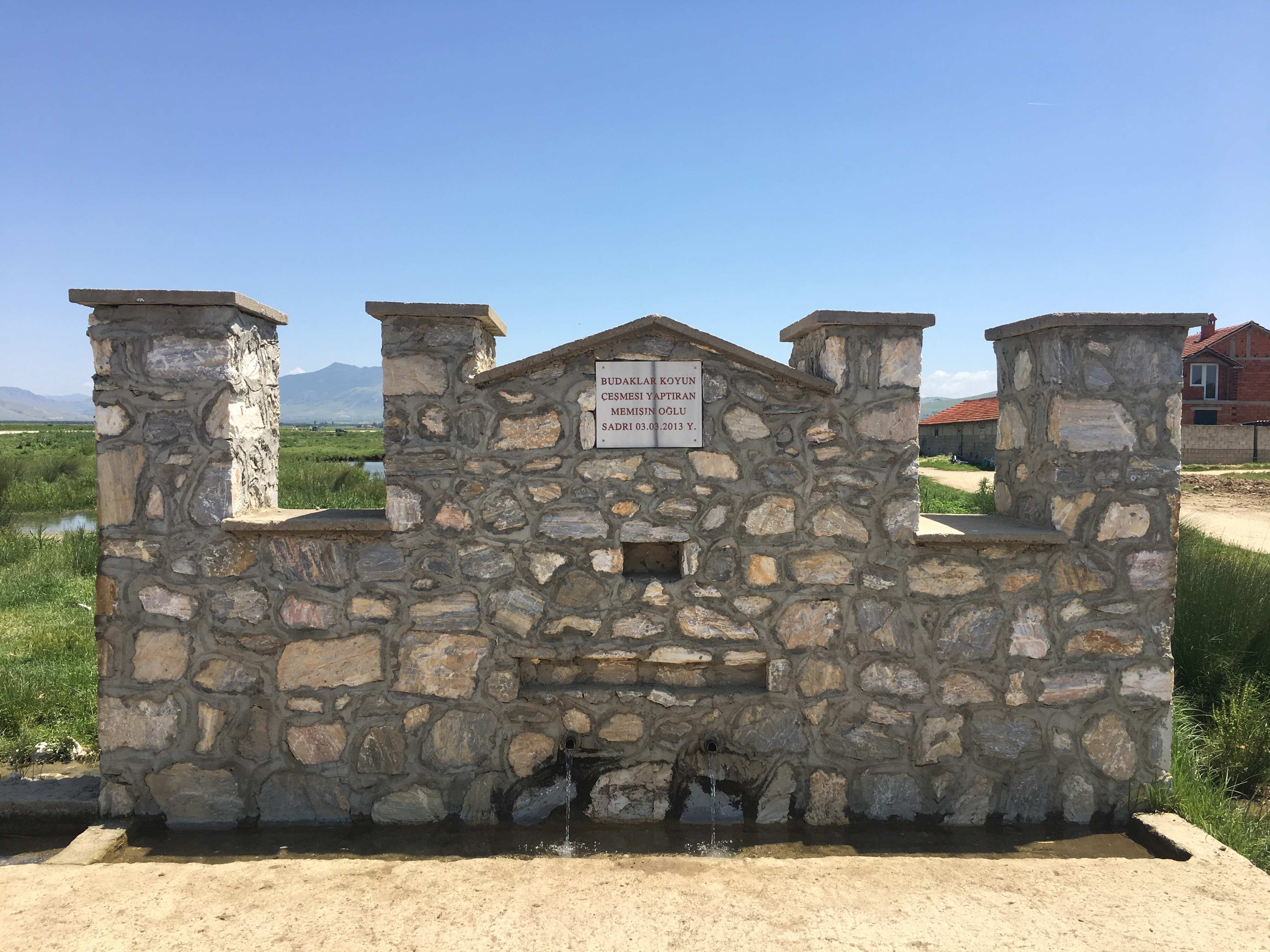 A pump in the village of Budakovo